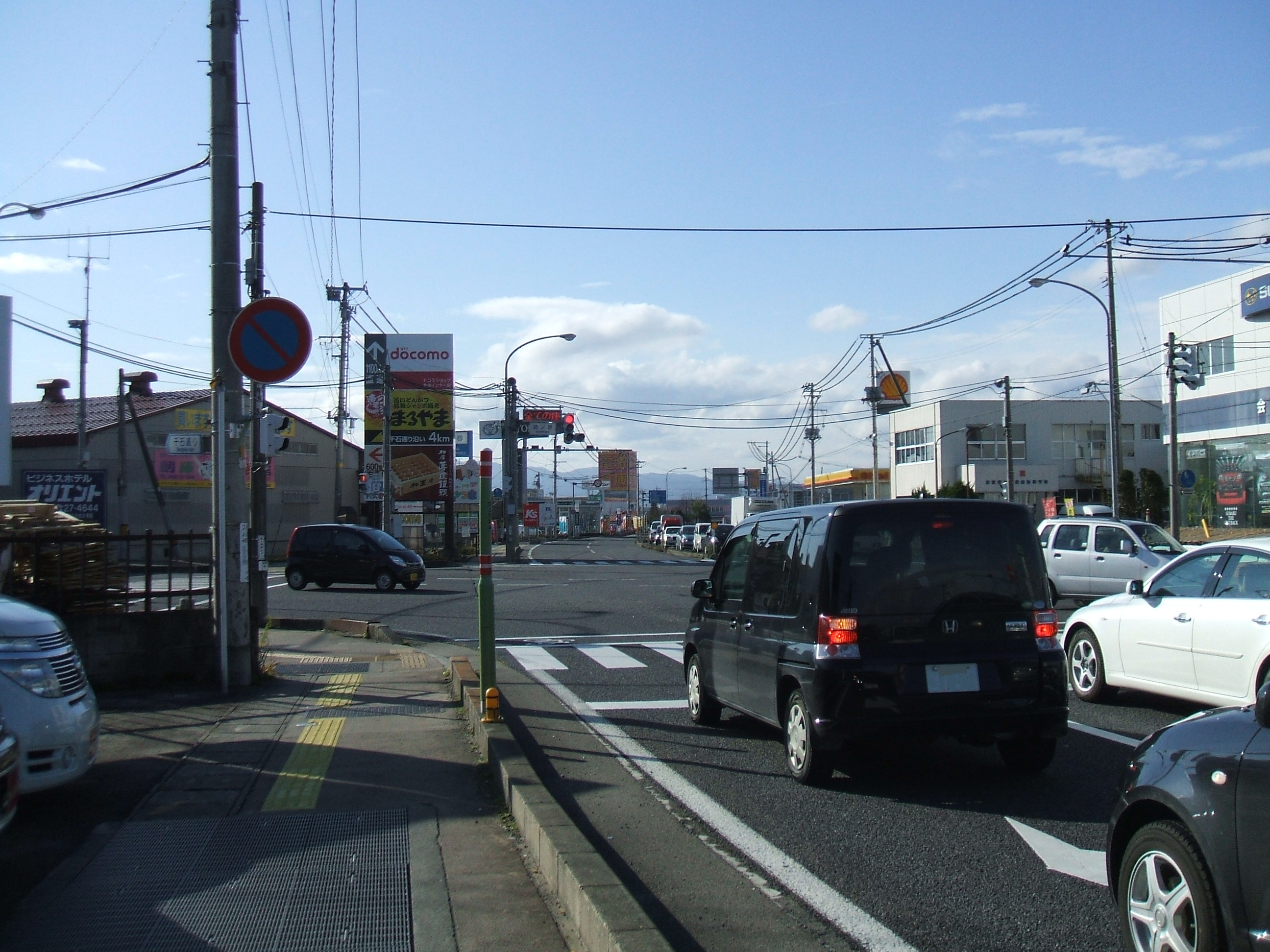 A landscape of Japanese National Road "Route 49" at Aizuwakamatsu, Fukushima. This is taken at a crossing of where with "Sengoku-Dori" Street.